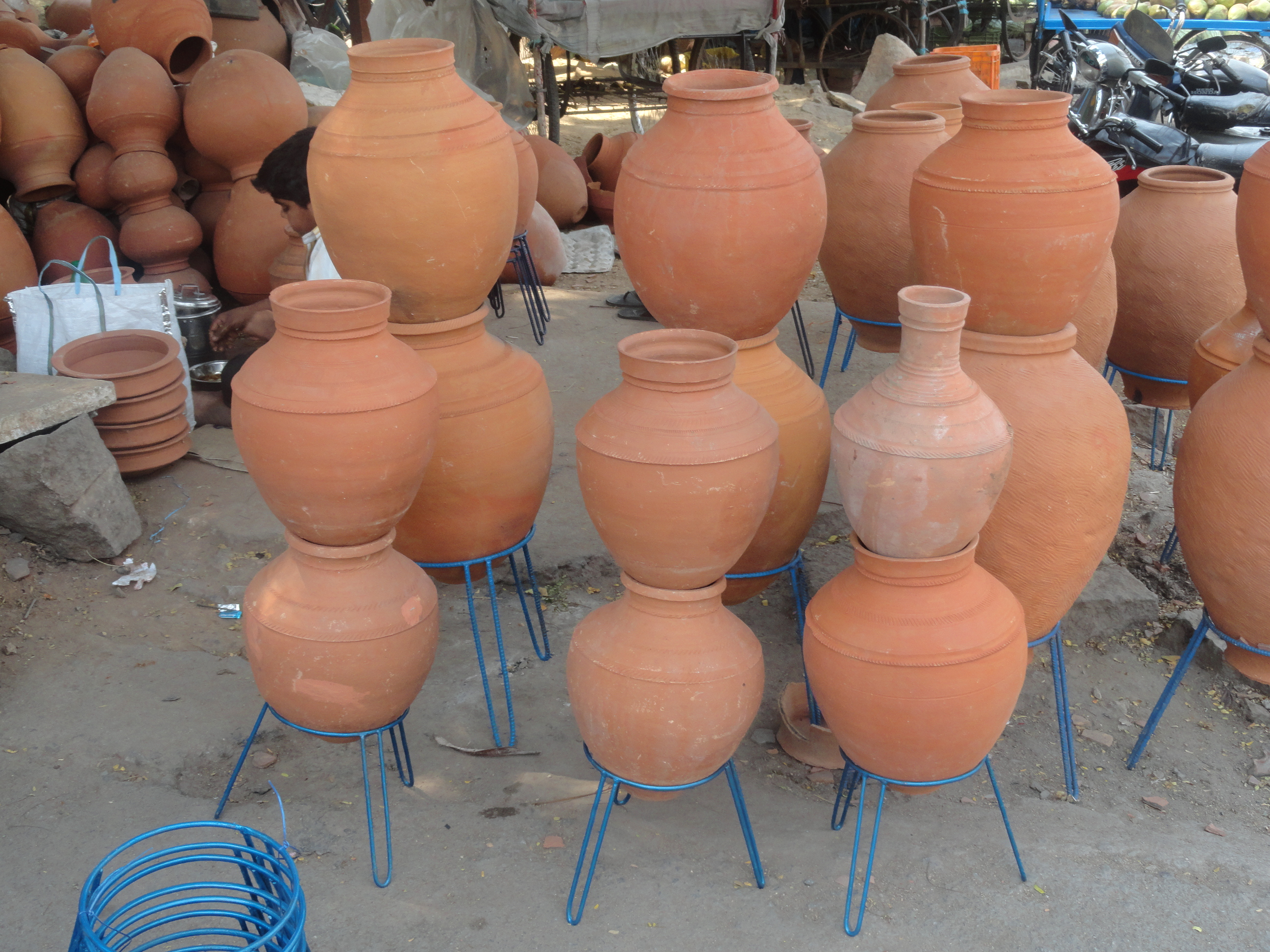 earthern pots in India